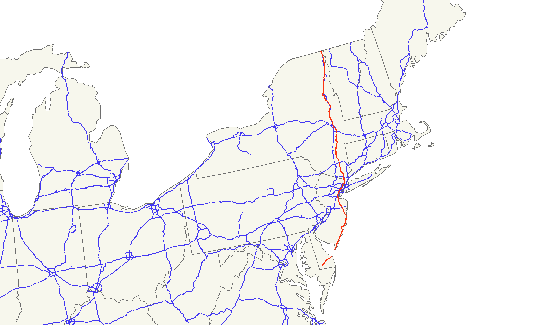 Map of U.S. Route 9